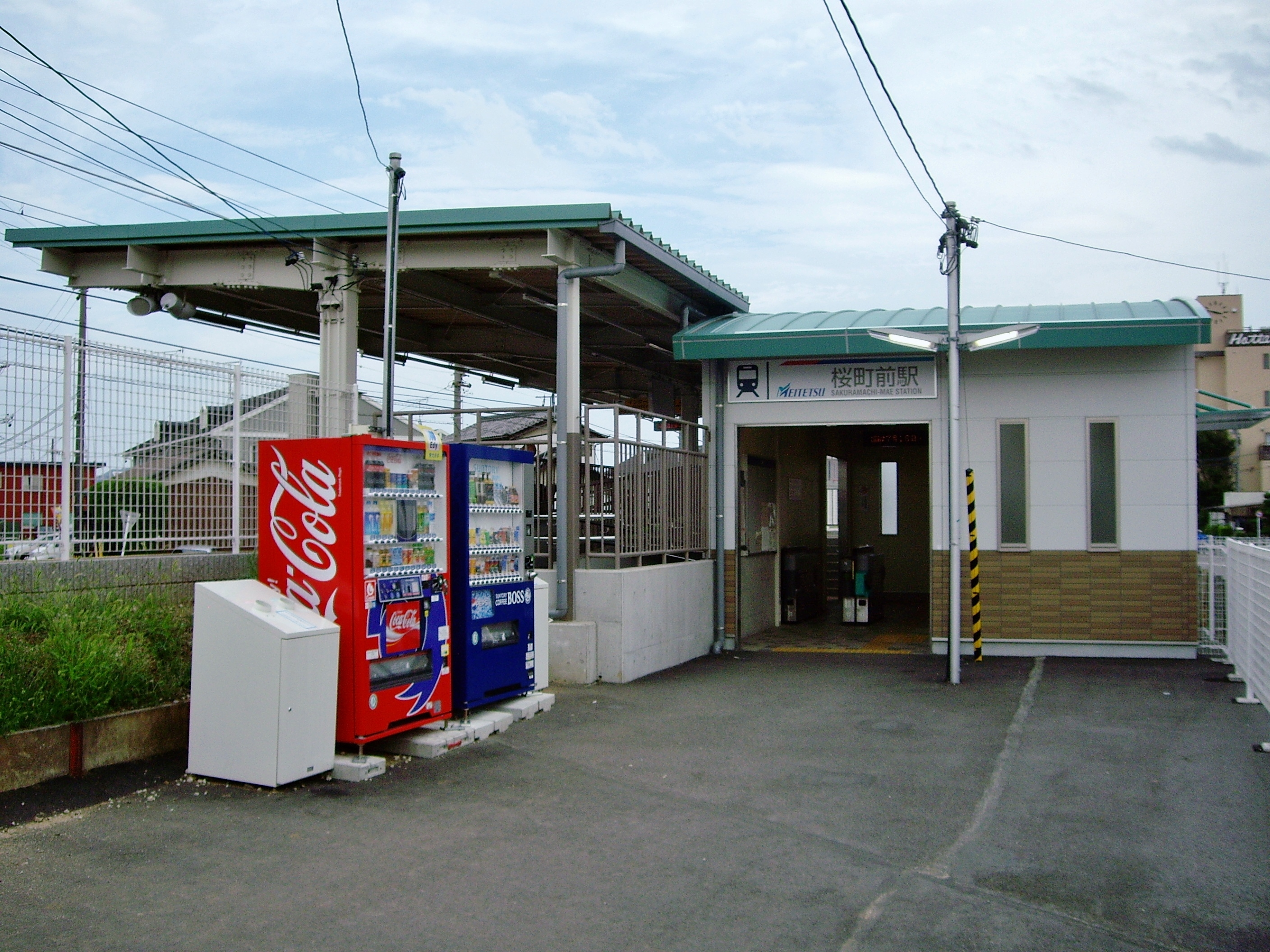 Meitetsu Nishio Line Sakuramschi-mae Station, in Nishio city.